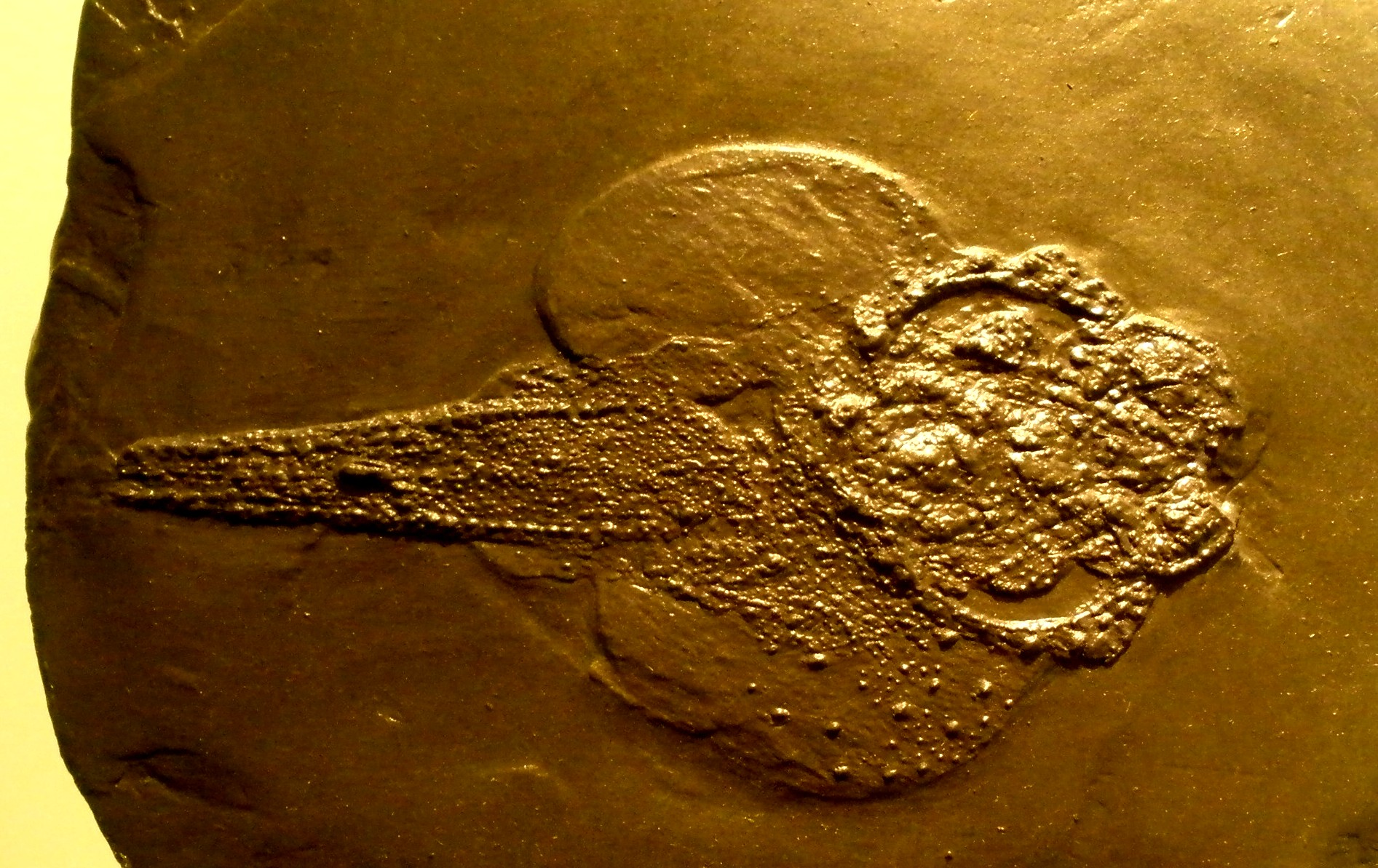 Fossil of Gemuendina stuertzi, a placoderm